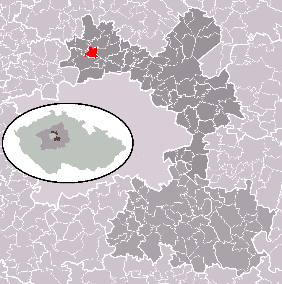 Location of Klíčany municipality within Prague-East District and administrative area of Brandýs nad Labem-Stará Boleslav as a Municipality with Extended Competence.